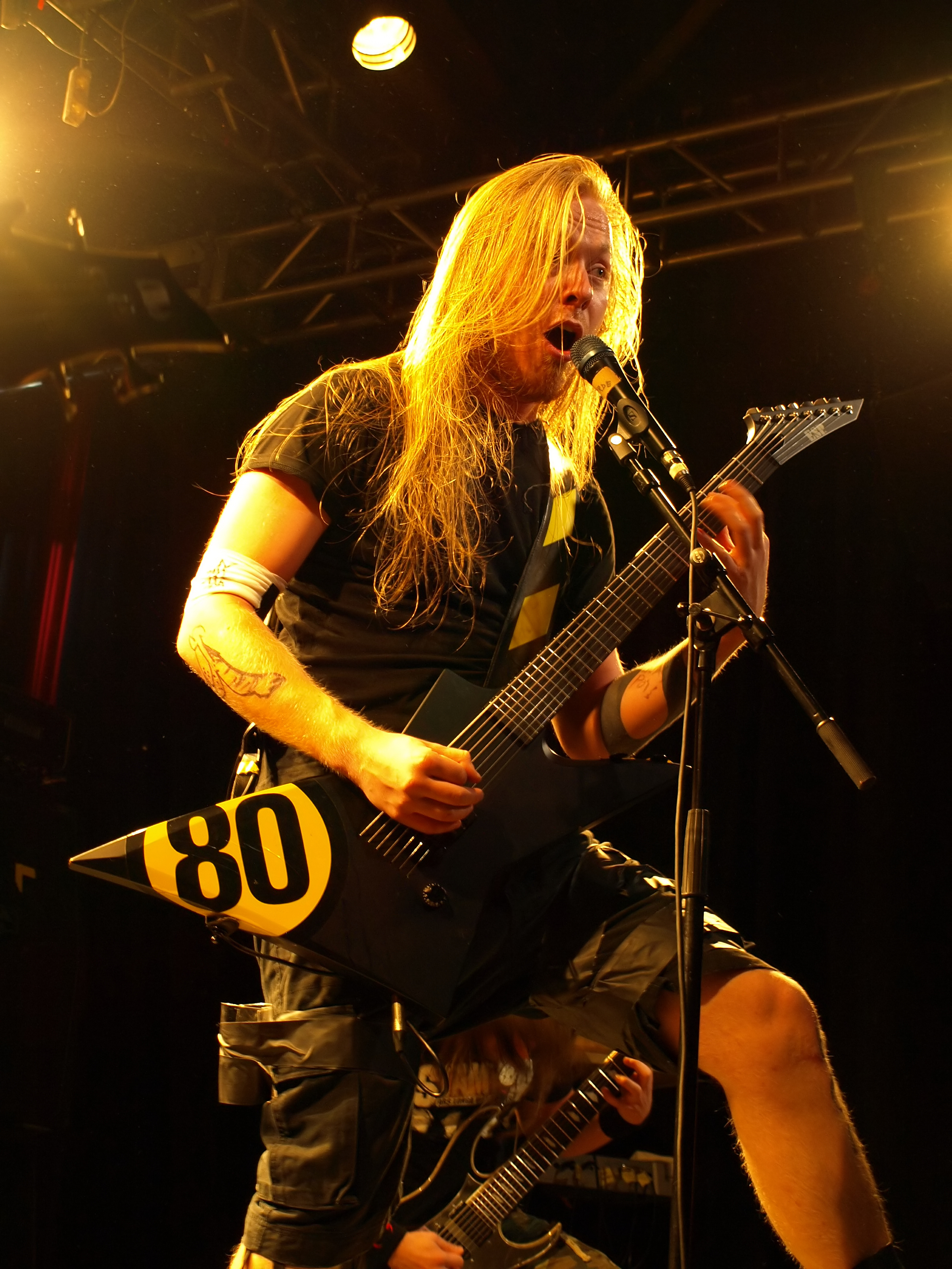 Singer Veli Antti Hyyrynen of the Finnish thrash metal band Stam1na live at Nosturi, Helsinki.